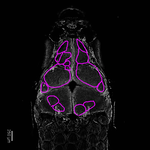 Calcien based imaging of a 12mm zebrafish, approximately 32dpf with irregular Runx2 initiation sites in a Sp7 mutant overlayed using fuschia.